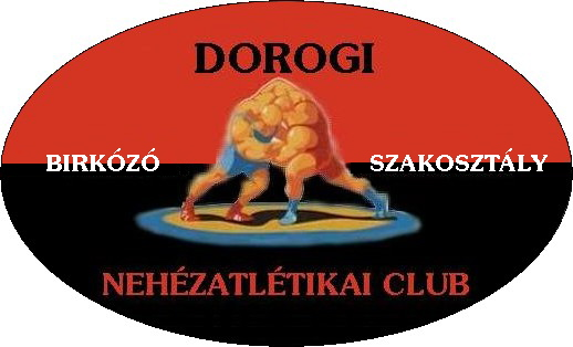 The wrestling logo of Dorog